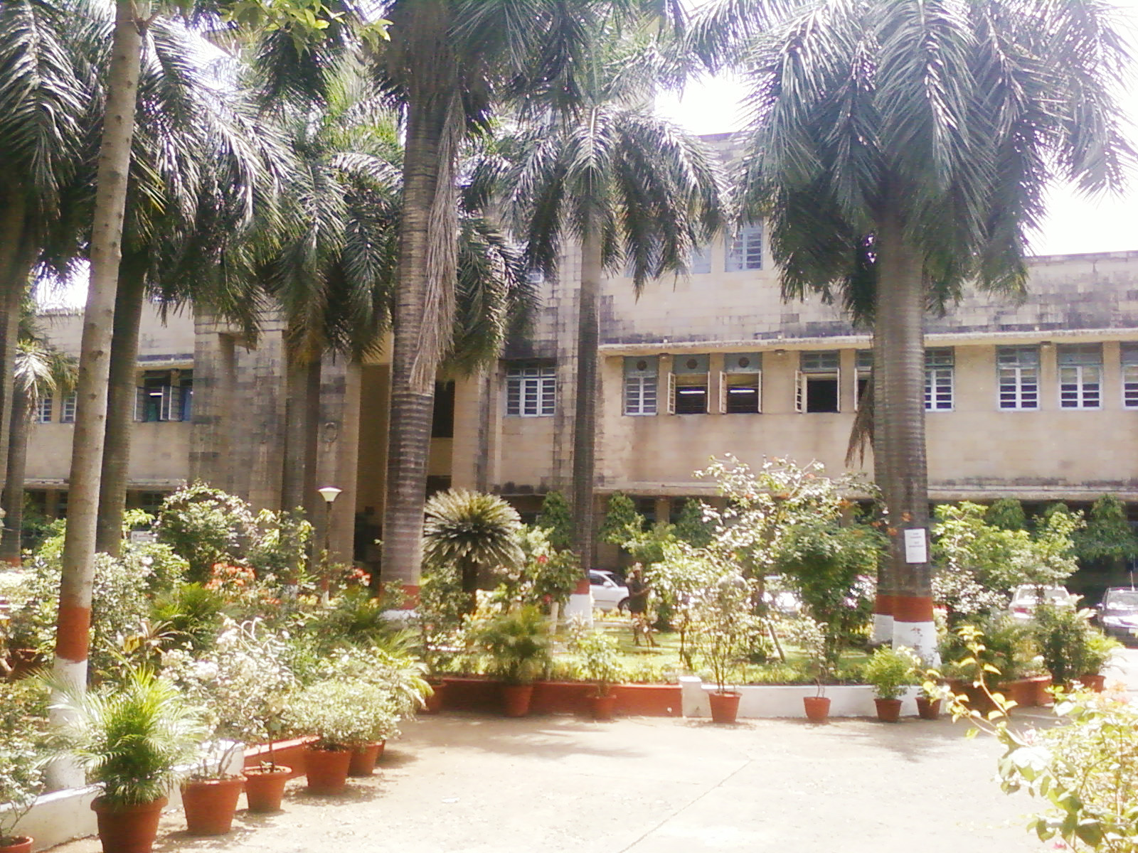 University Institute of Chemical Technology - Wadala